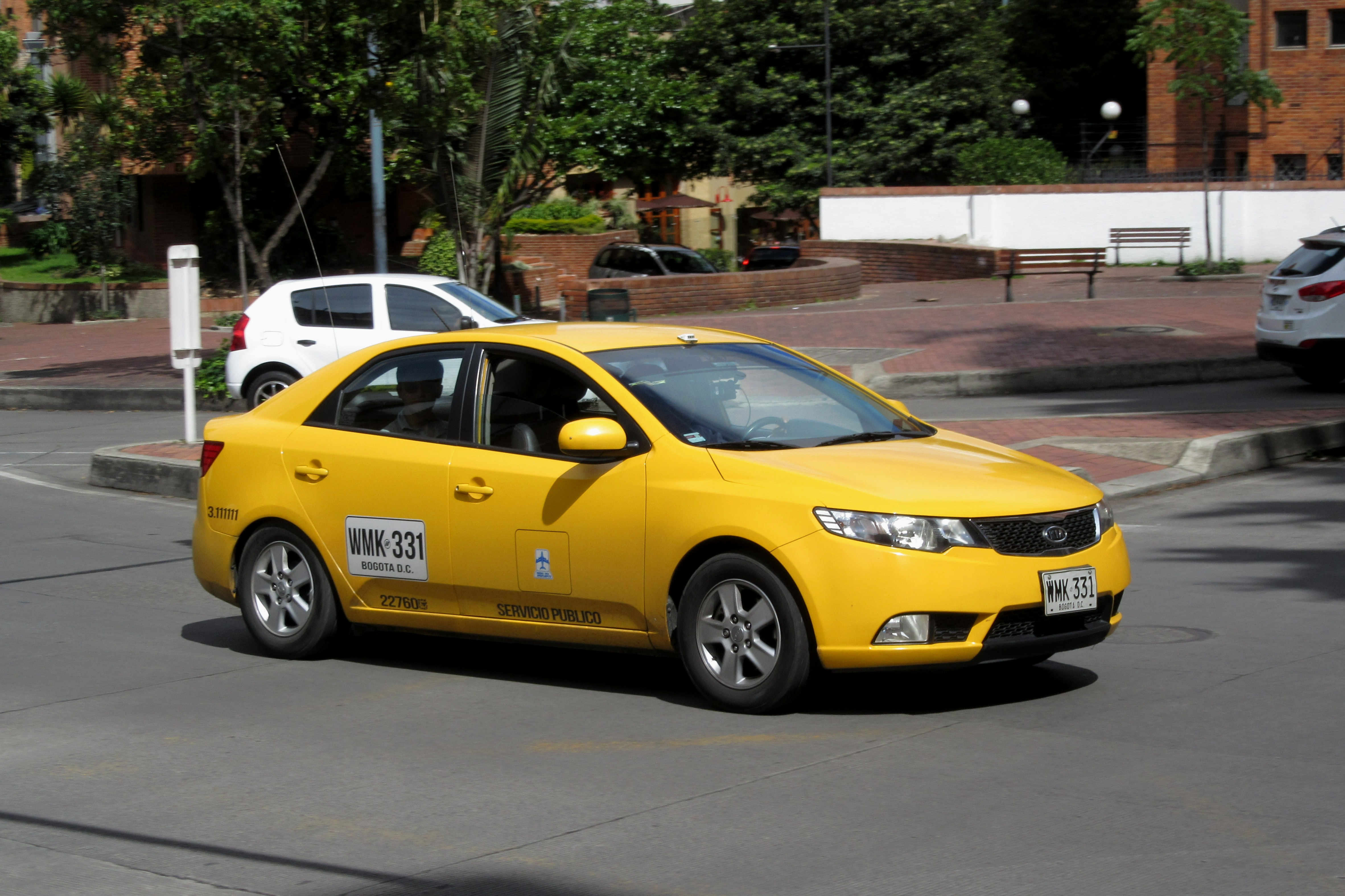 Bogotá